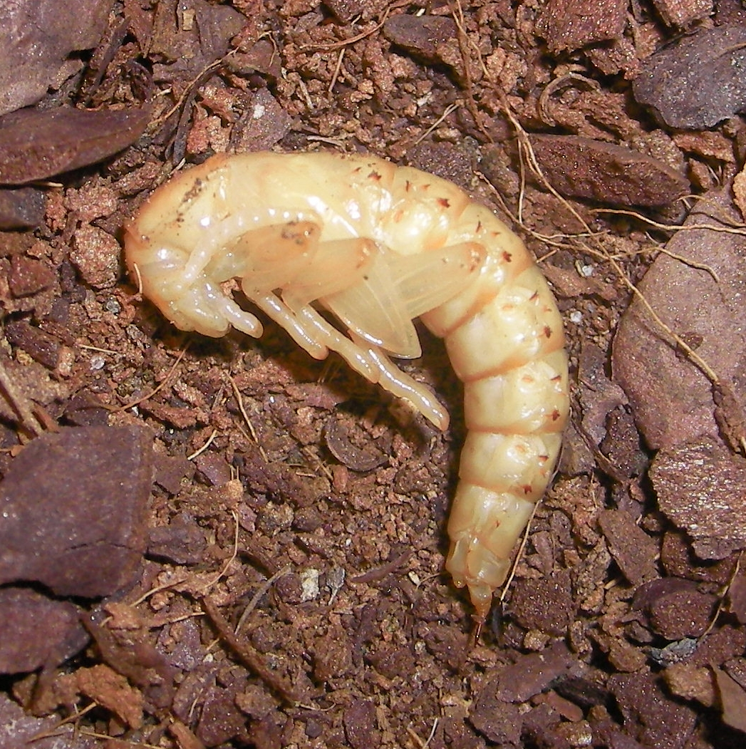 Zophobas morio